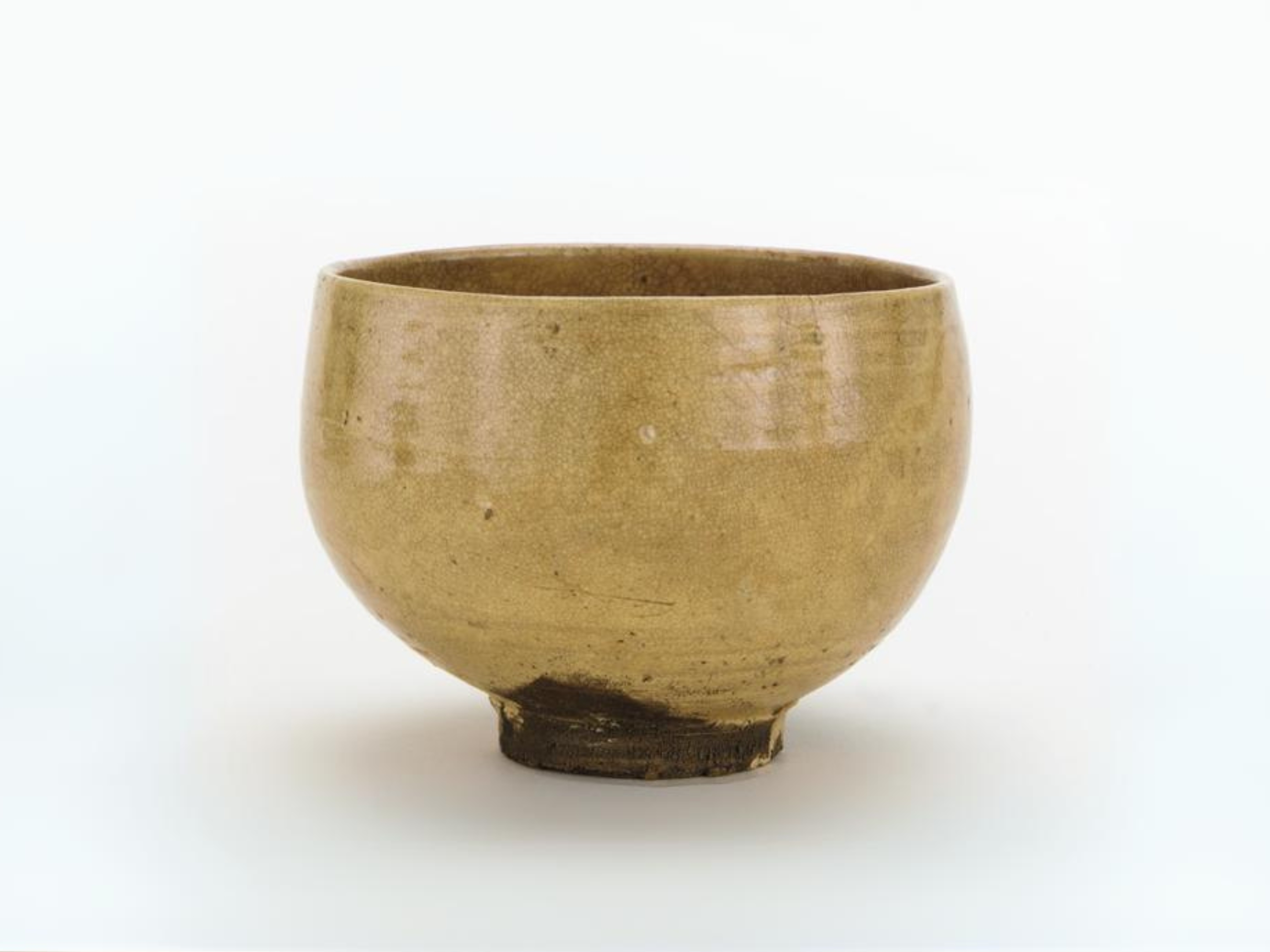 Hagi ware Japanese tea bowl, 18th-19th century, Freer Gallery of Art